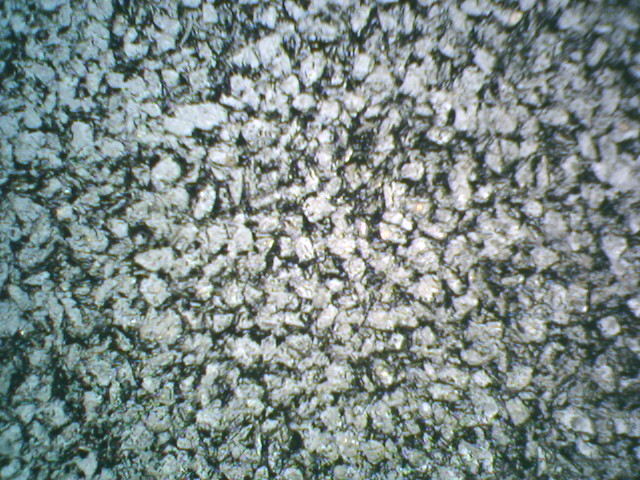 I took this photo whilst my street (in London) was in the middle of being resurfaced. It is a close-up of fresh tarmac (for use in the WP tarmac article).